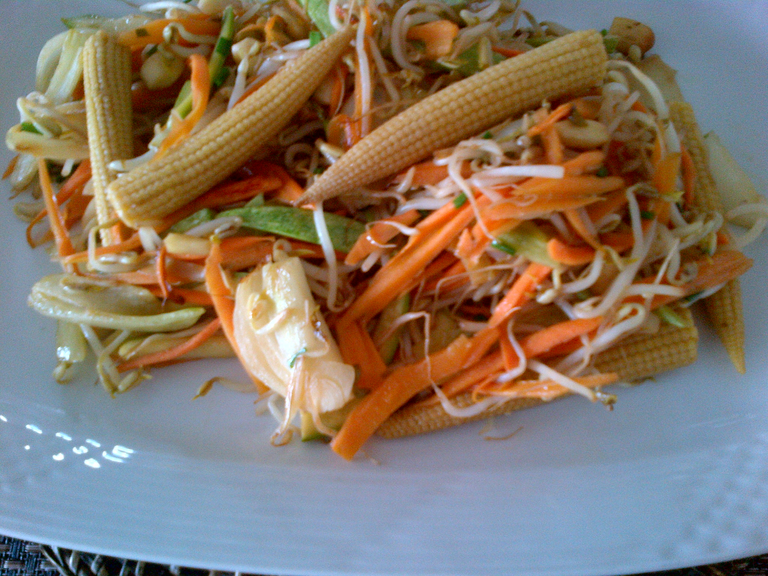 Chop suey made in Ankara, Turkey.